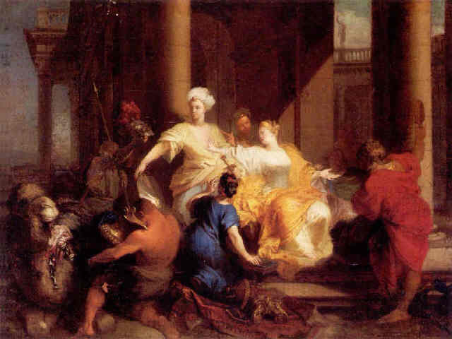 Painting entitled Achilles discovered among the daughters of Lycomedes